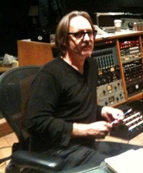 Butch Vig